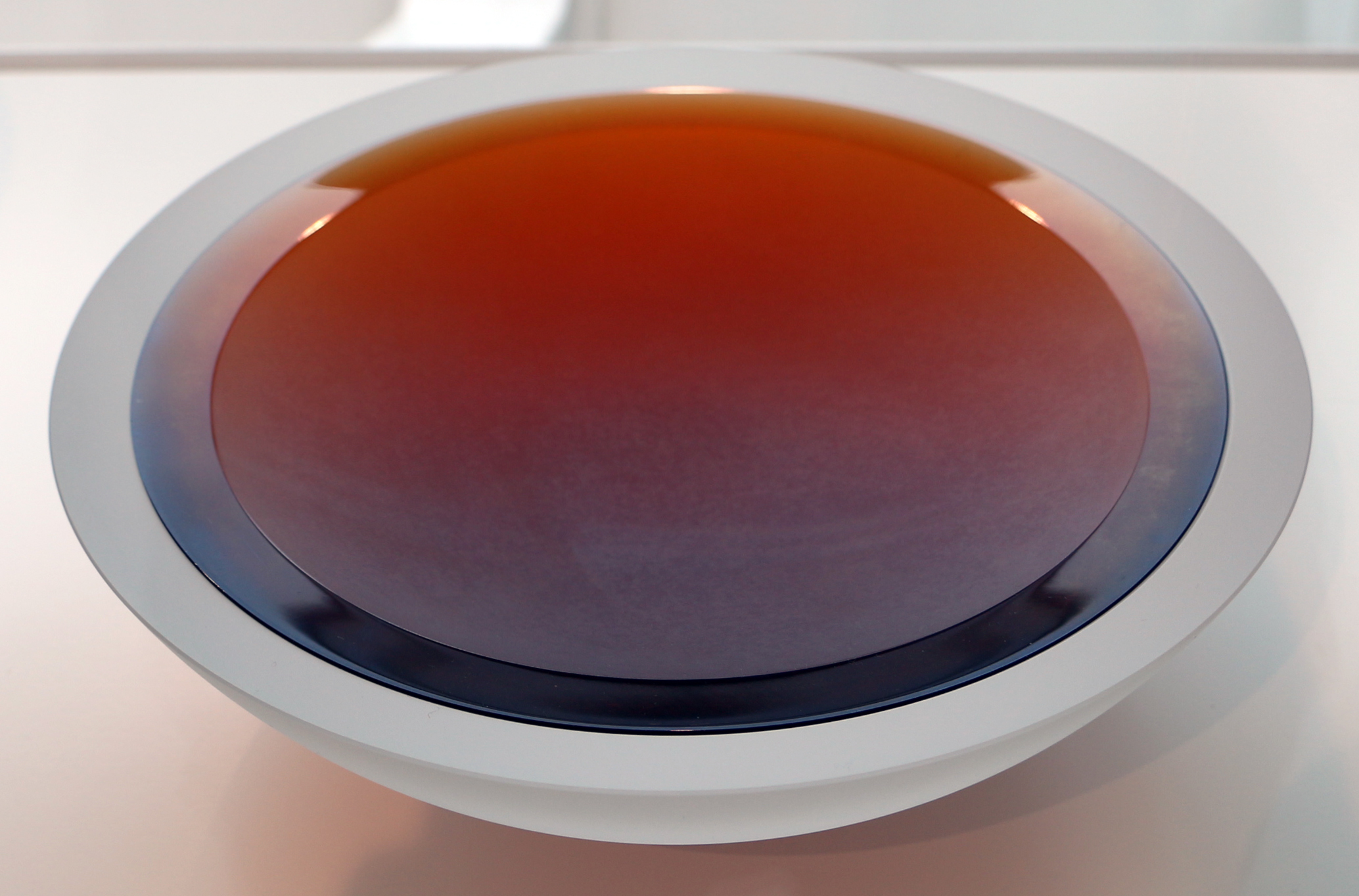 Glassware in the Milwaukee Art Museum